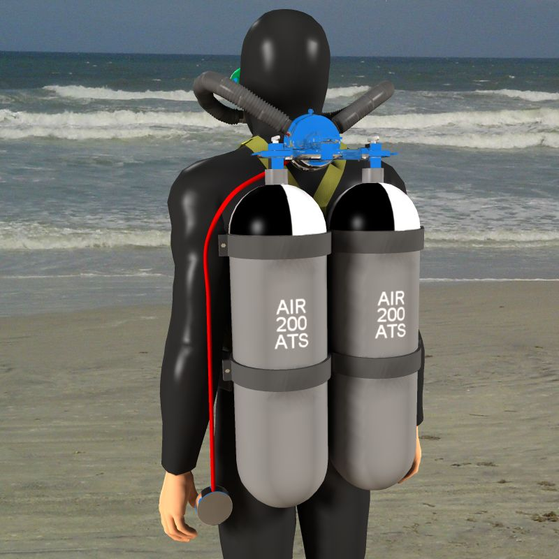 Old-type "twin-hose" aqualung I made the image with CGI. Anthony Appleyard (talk) Note that the diver in this graphic is standing leaning somewhat forwards. The straight-up position is seen often in films of divers played by actors, who invariably wear mockup non-metal tanks in somewhat the same manner as actors always carry empty suitcases and wear empty camping backpacks. Real divers with real metal tanks weighing 20 kg or more each on their backs, always walk with a characteristically bent-over position.